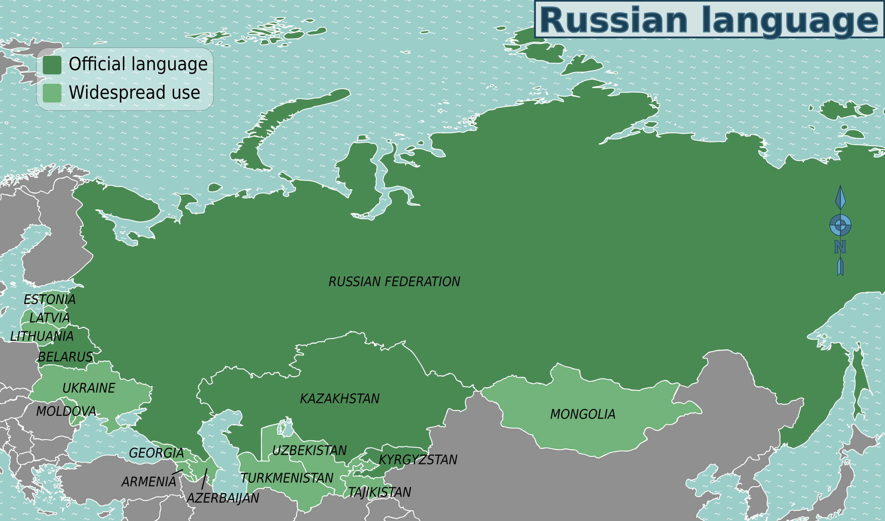 Russian language map. English version, Map of: Russia¤ category:Russian phrasebook.